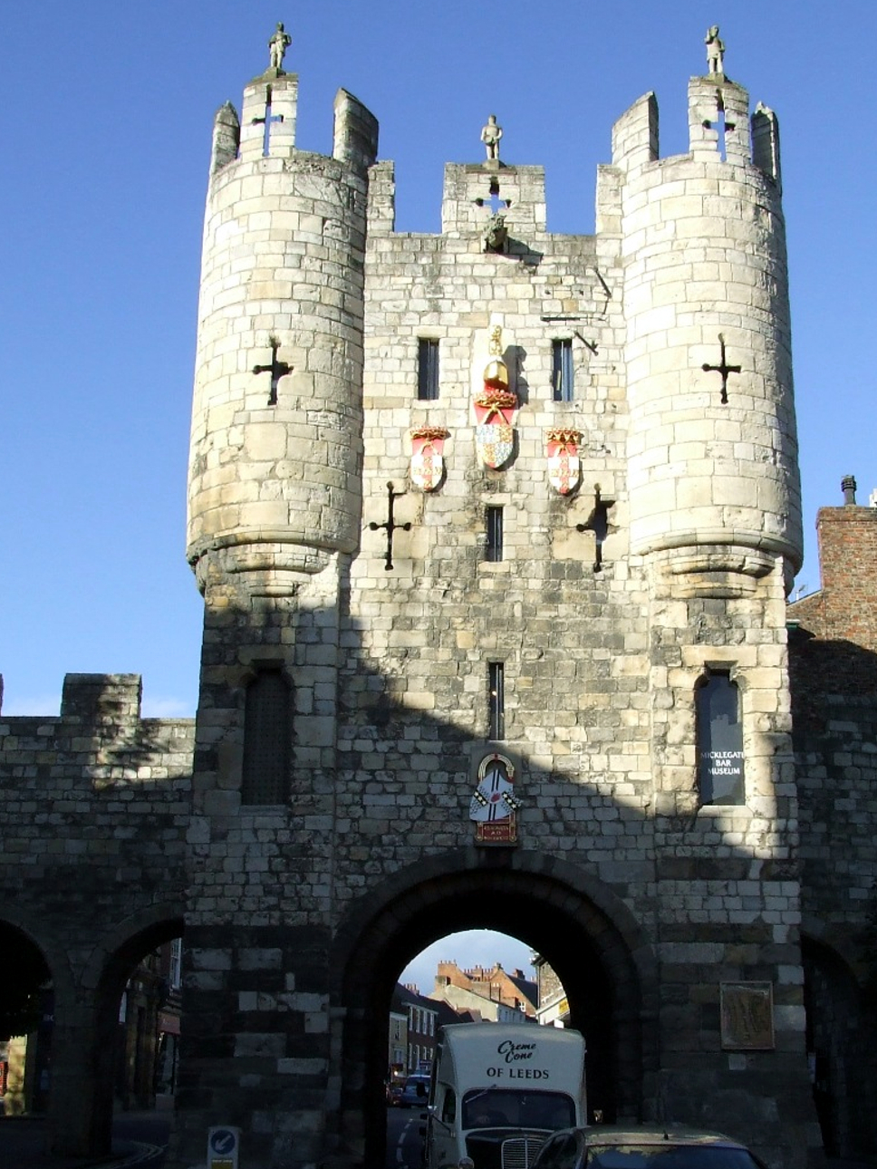 Micklegate Bar, York